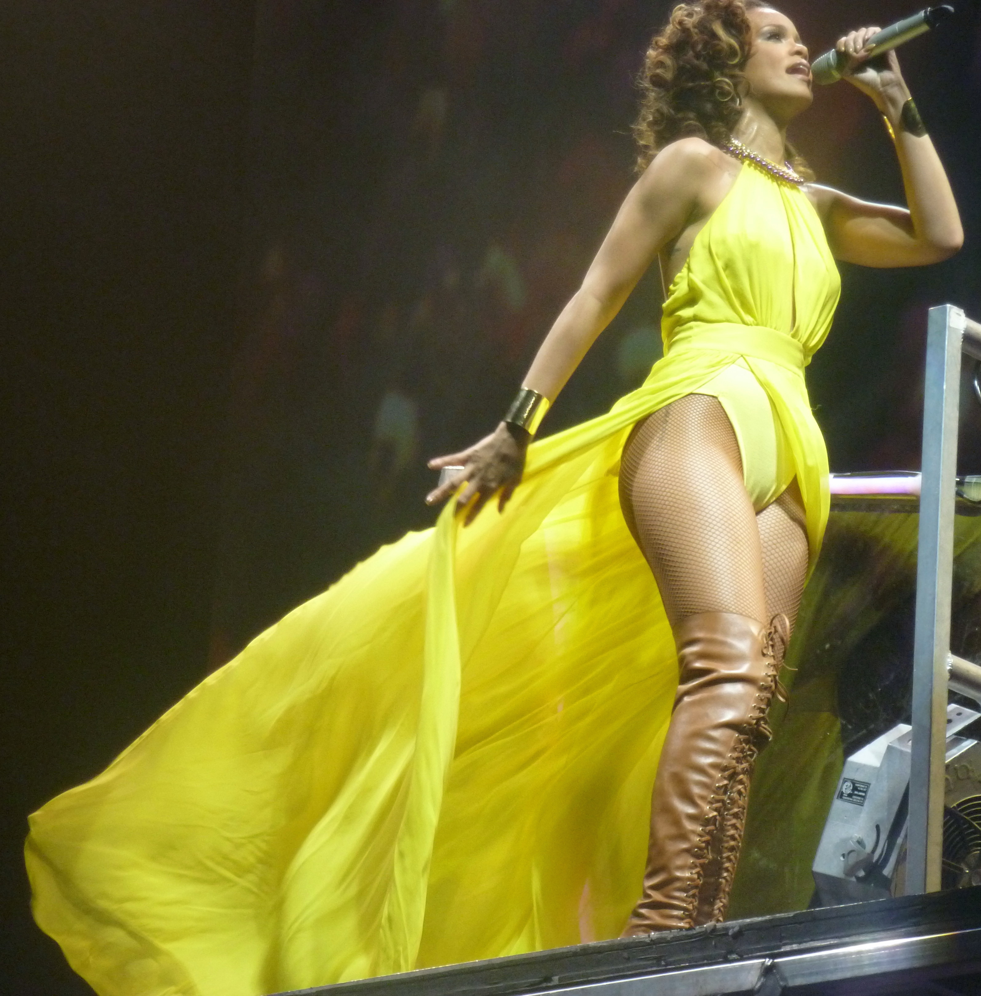 Rihanna in concert at the Paris Bercy during the "Loud Tour" in October 2011.